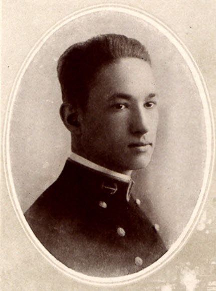 Twenty year old Midshipman Frank Wilbur Wead, Class of 1916 yearbook photograph taken by the United States Naval Academy photographer.